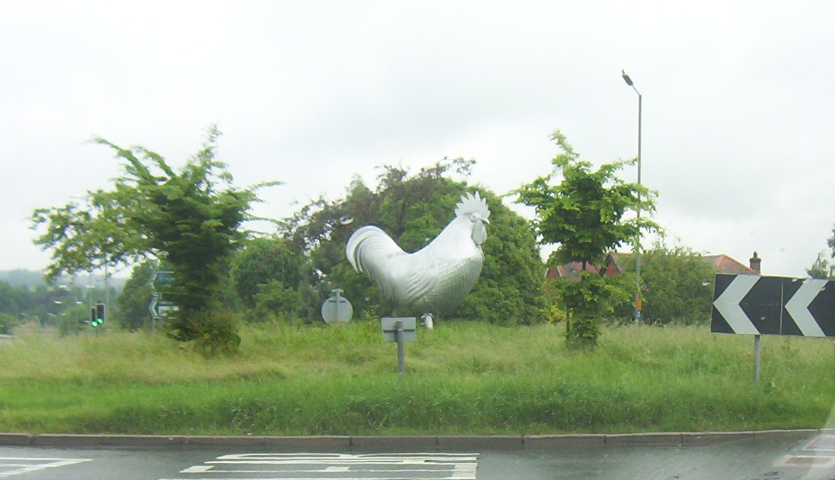 Th Dorking cockerel on the A24/25 roundabout.